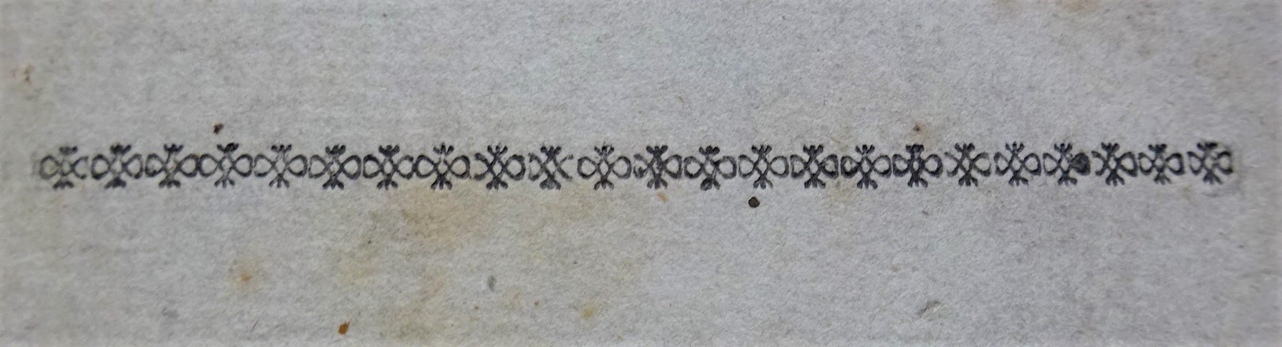 Fleurons from the 1787 Edinburgh Edition of Robert Burns "Poems, Chiefly in the Scottish Dialect"